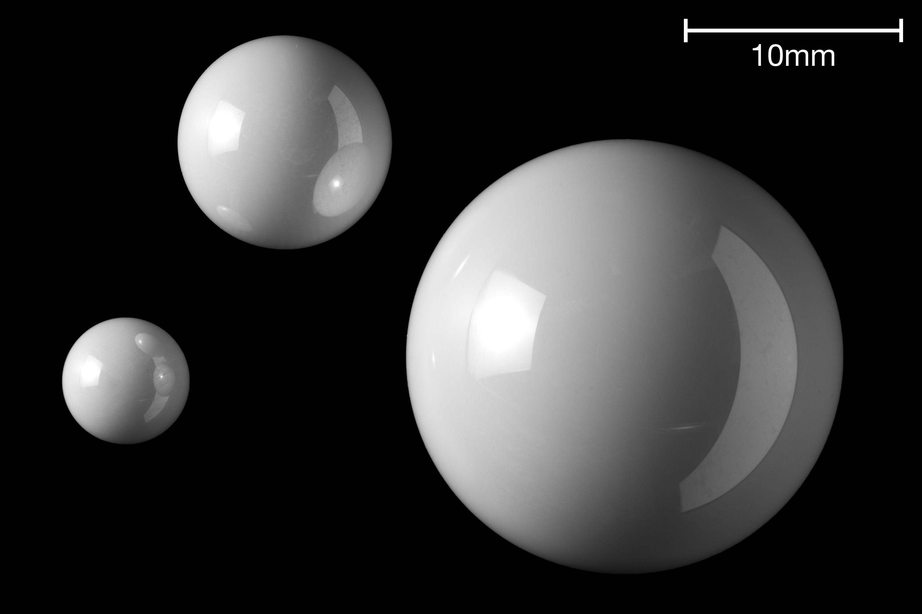 Ball bearings made of zirconium dioxide in diameter 6mm, 10mm and 20mm, Grade 10 and 28 (DIN 5401).